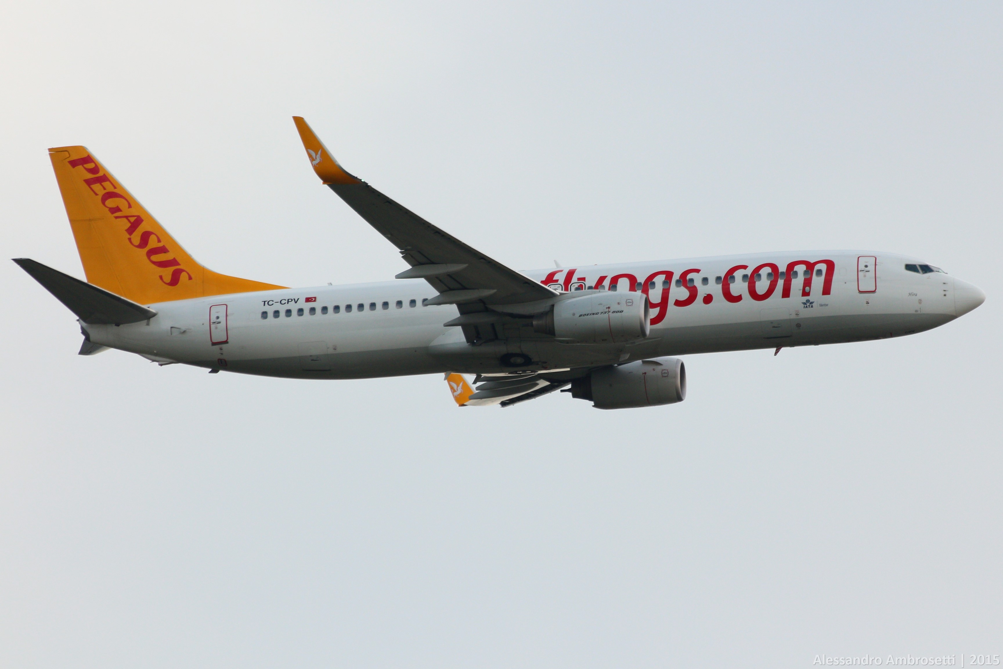 Taken at Rome Fiumicino Airport